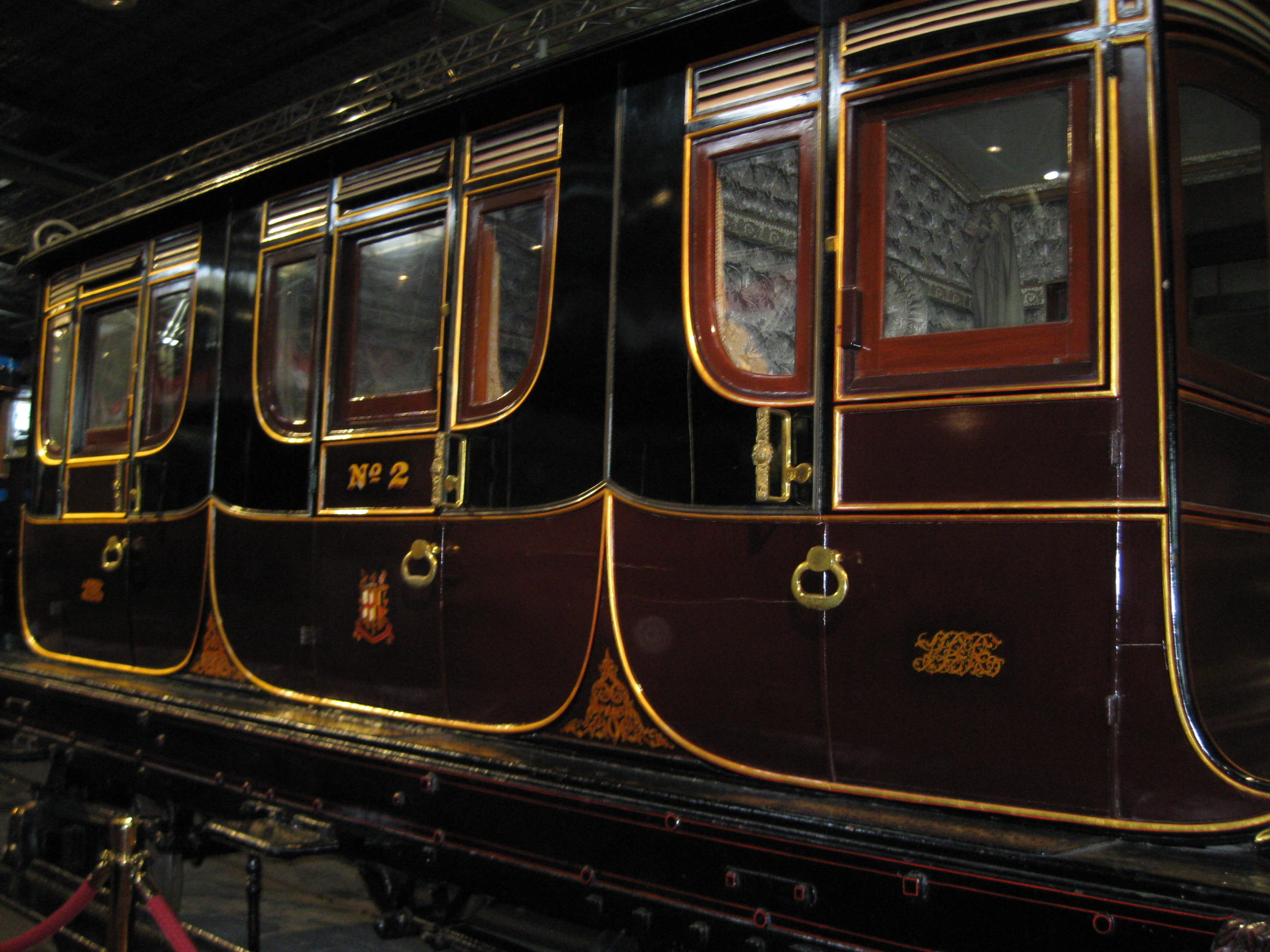 Queen Adelaide's saloon built in 1842, displayed at the National railway Museum, York.